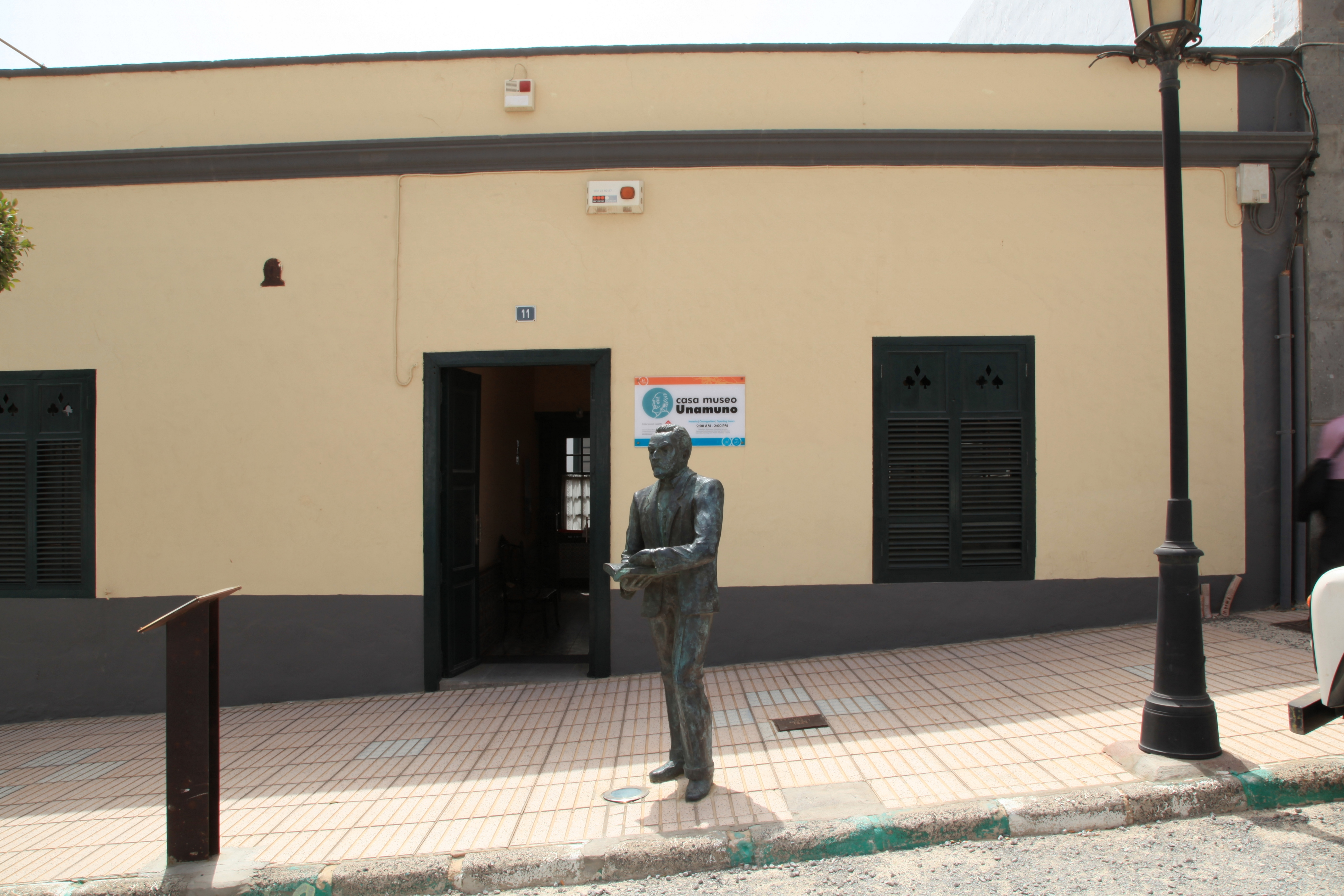 Casa Museo Unamuno, Calle Virgen Del Rosario in Puerto del Rosario, Fuerteventura, Canary Islands